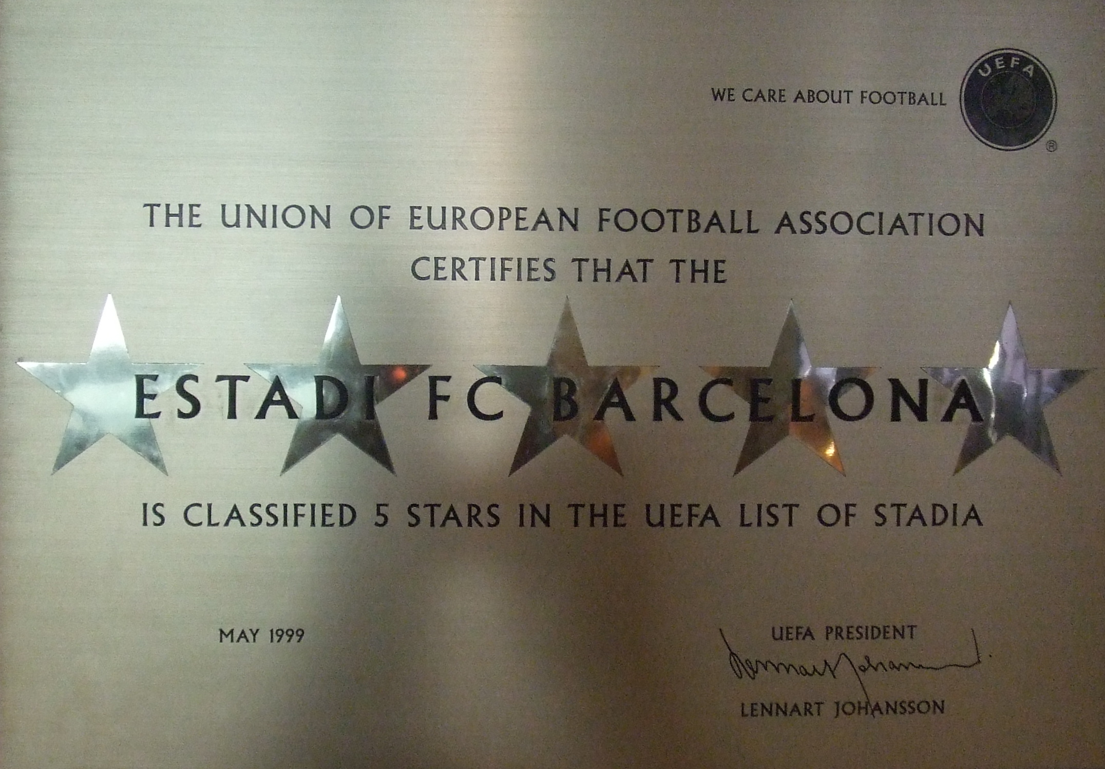 Camp Nou stadium 5 stars